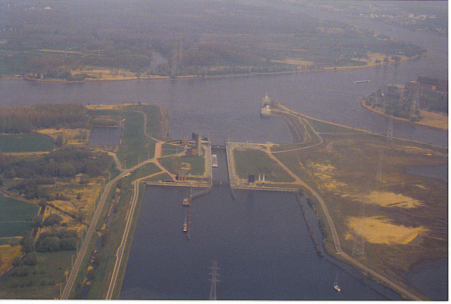 Mouth of the Rupel and the Brussels-Scheldt channel in Wintam.